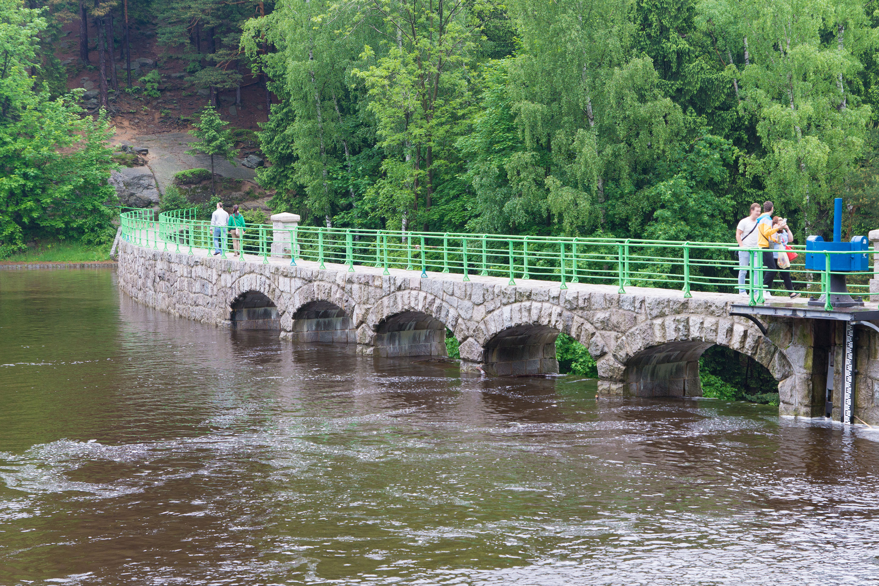 Łomnica Dam, Karpacz